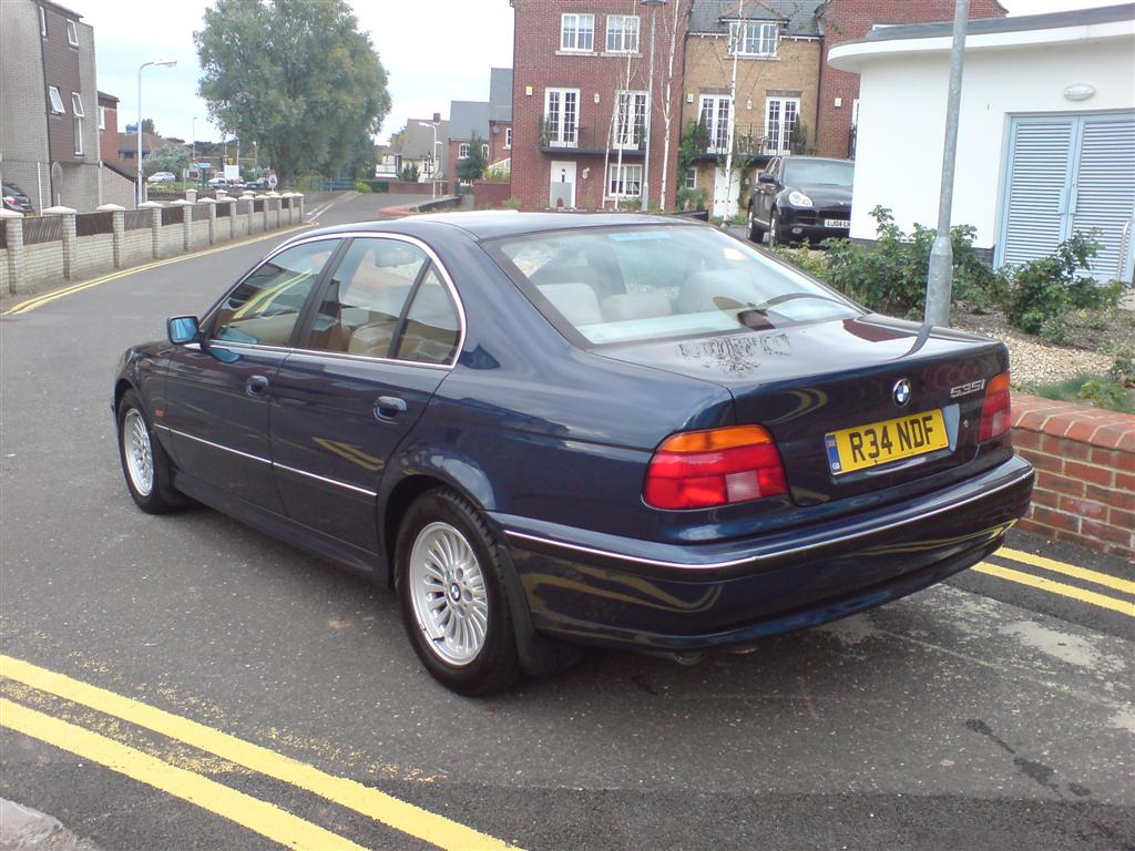 1998 BMW 535i SE (E39) automatic, photographed in England.